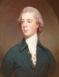 Charles Philip Yorke, statesman